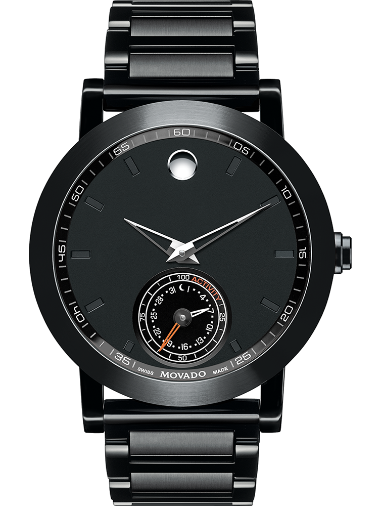 Image of the Movado Museum Sport Motion Smartwatch powered by MotionX, taken from the press section of the MotionX website.